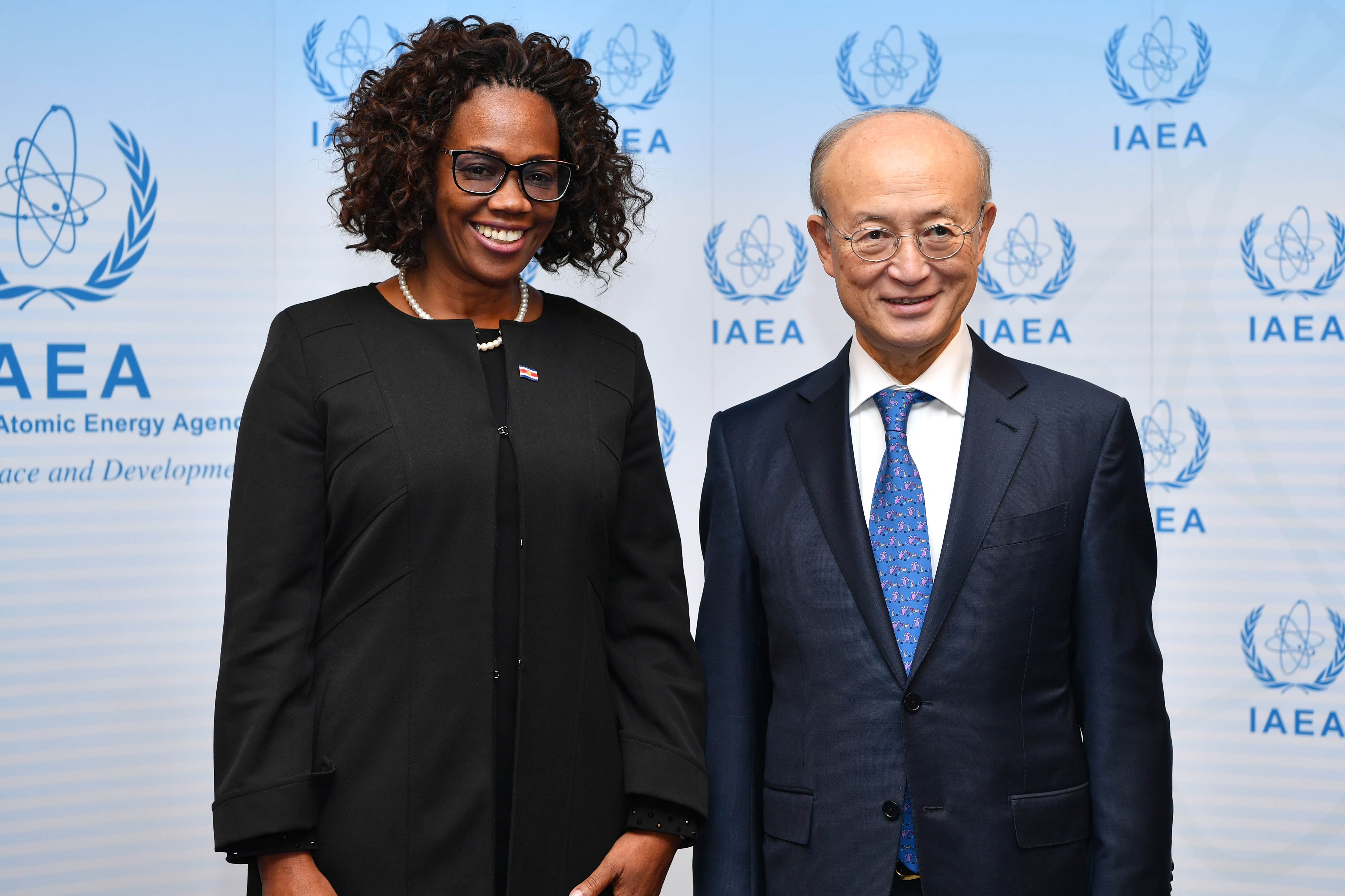 IAEA Director General Yukiya Amano together with HE Ms Epsy Campbell Barr, Vice-President and Minister of Foreign Affaris of Costa Rica, Co-Chair of the Ministerial Conference on Nuclear Science and Technology: Addressing Current and Emerging Development Challenges taking place at the Agency headquarters in Vienna, Austria. 28 November 2018 Photo Credit: Dean Calma / IAEA